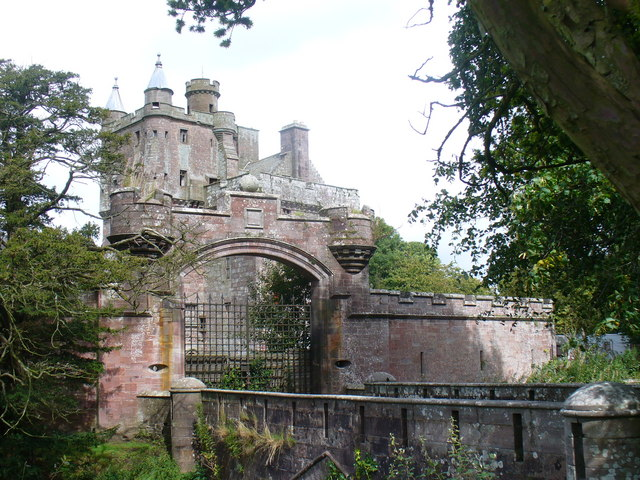 Hoddom Castle, Old Maxwell Fortalice This old castle once was on the Scottish front line in its defences against England. Now it holds a cafe in its grounds which caters for caravanners from the adjacent site and for walkers.